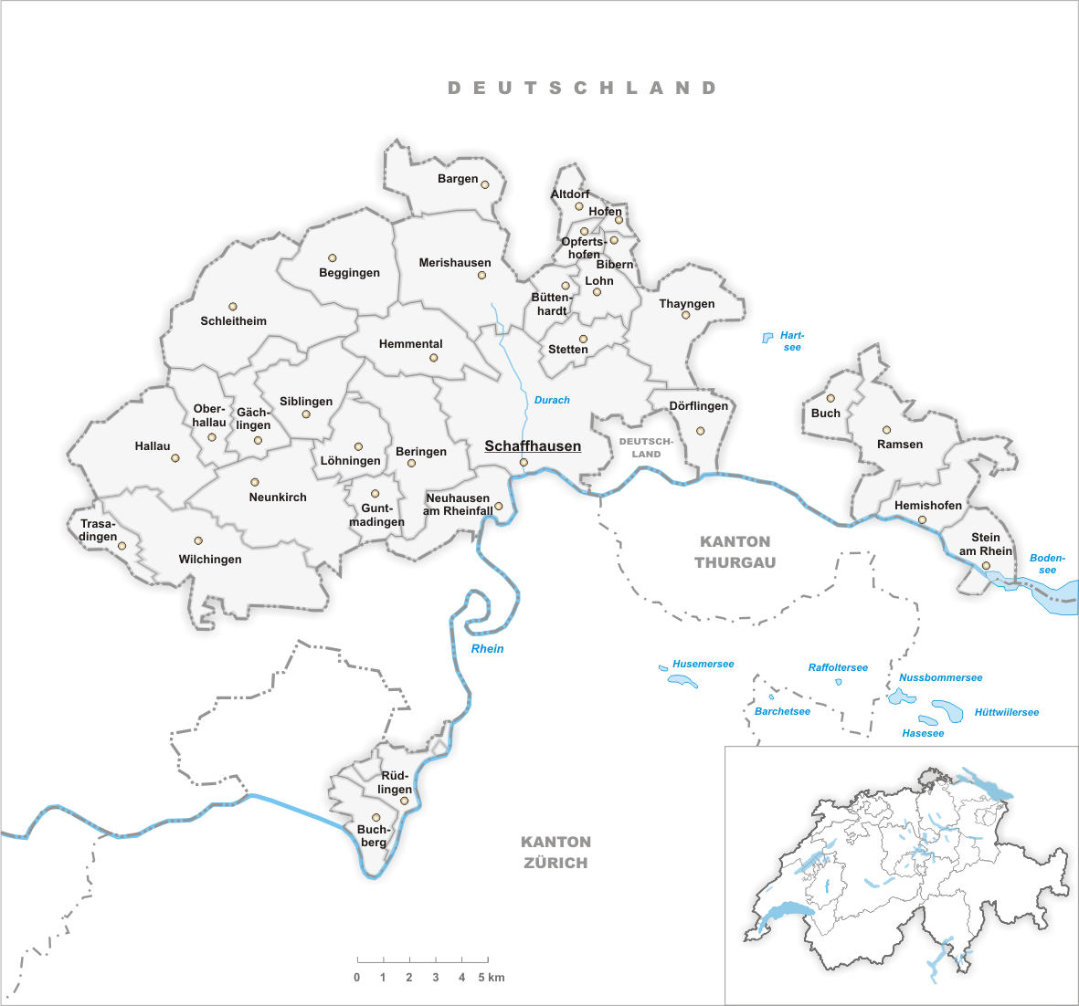 Municipalities in the canton of Schaffhausen